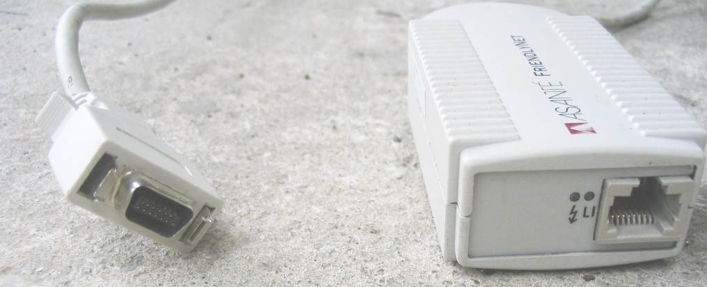 An Asante AAUI to 10Base-T tranceiver from the mid-'90s, taken by me